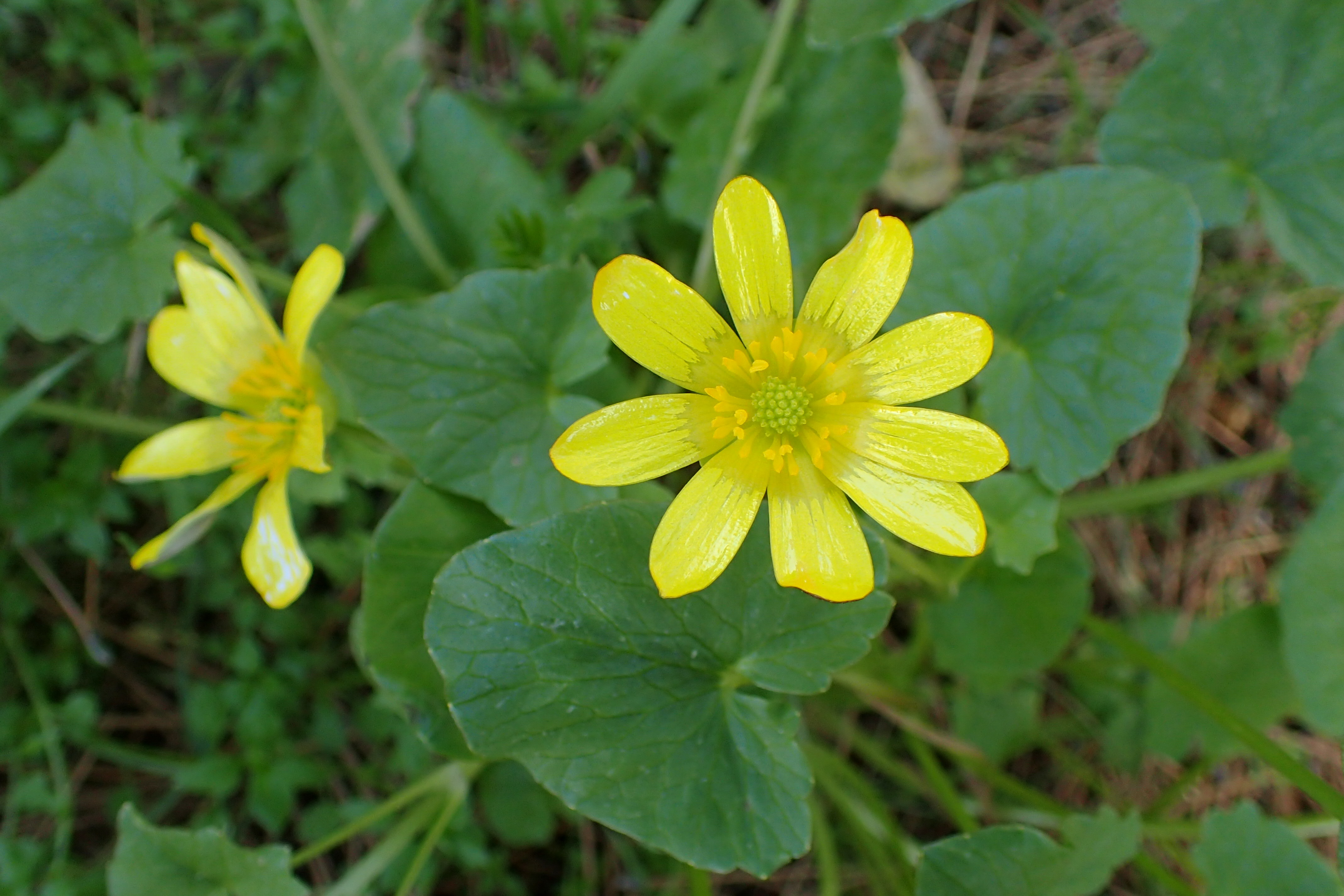 Ficaria verna subsp. chrysocephala (labelled as Ficaria chrysocephala) in Troodos Botanical Graden